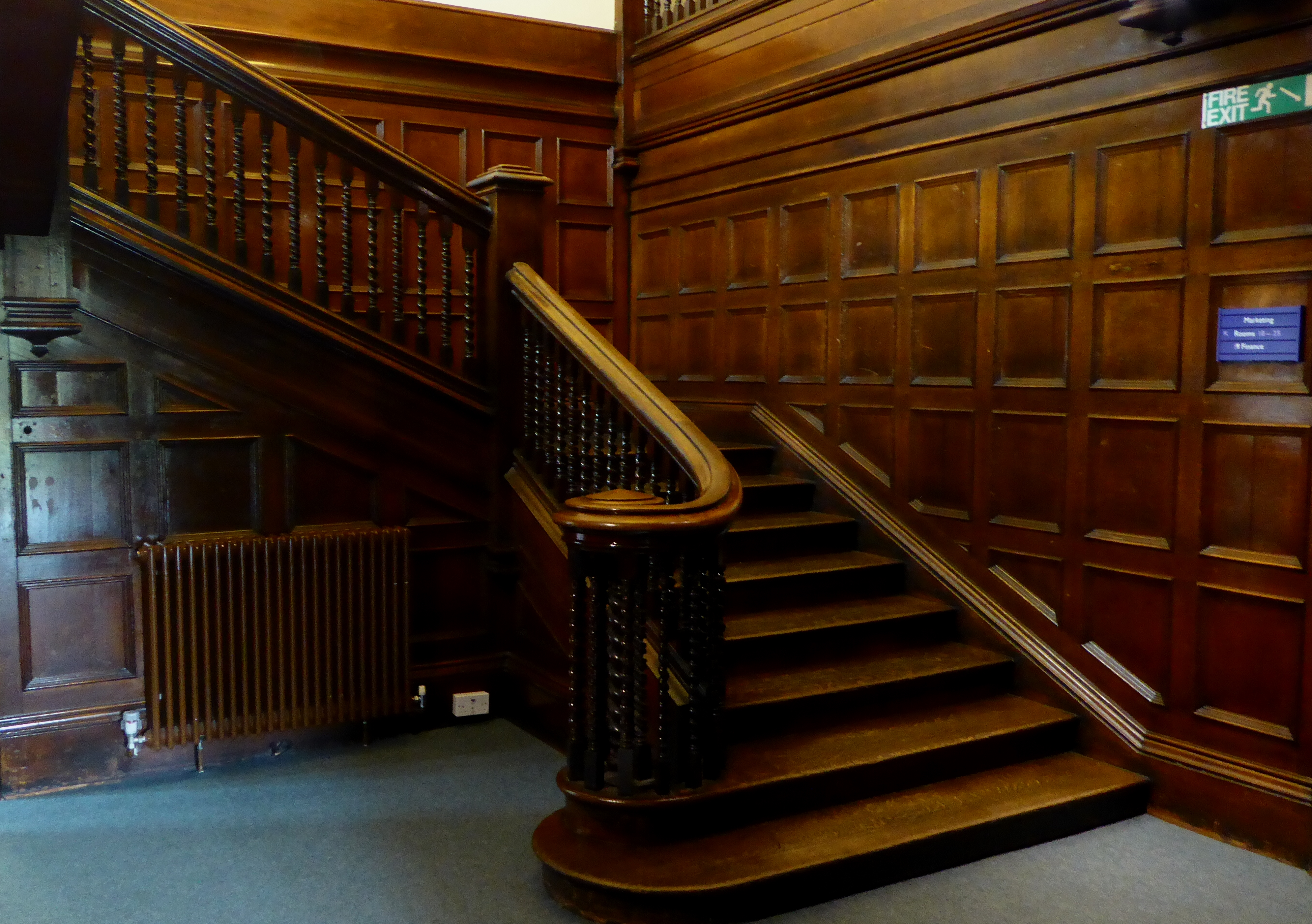 The central staircase at Lamorbey House in southeast London.